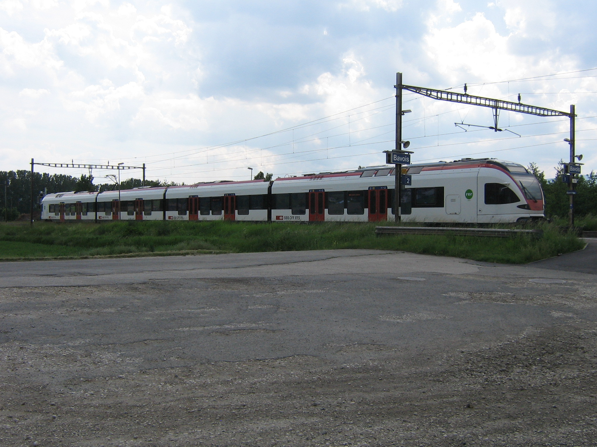 Flirt 12157 of the S1 line at the railway station of Bavois, running in direction of Lausanne.